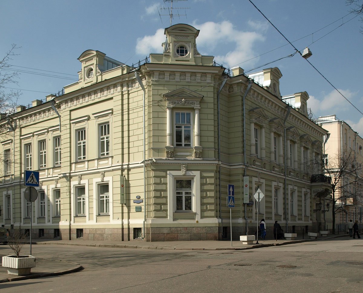 Moscow. Borisoglebsky Lane (left) - corner of Povarskaya street (right). Architect: Alexander Kaminsky.